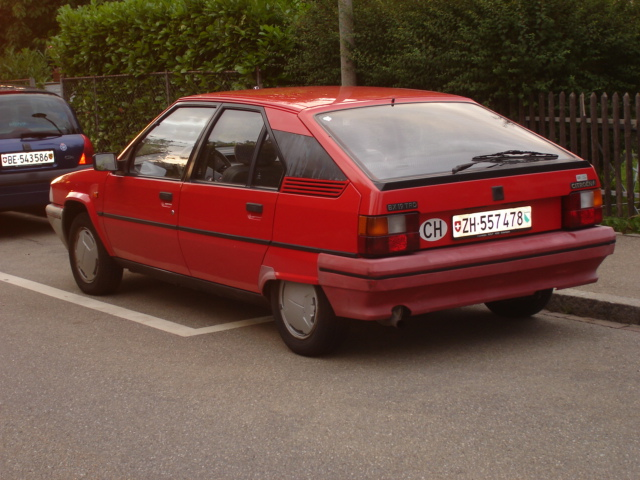 1987 Citroën BX Diesel